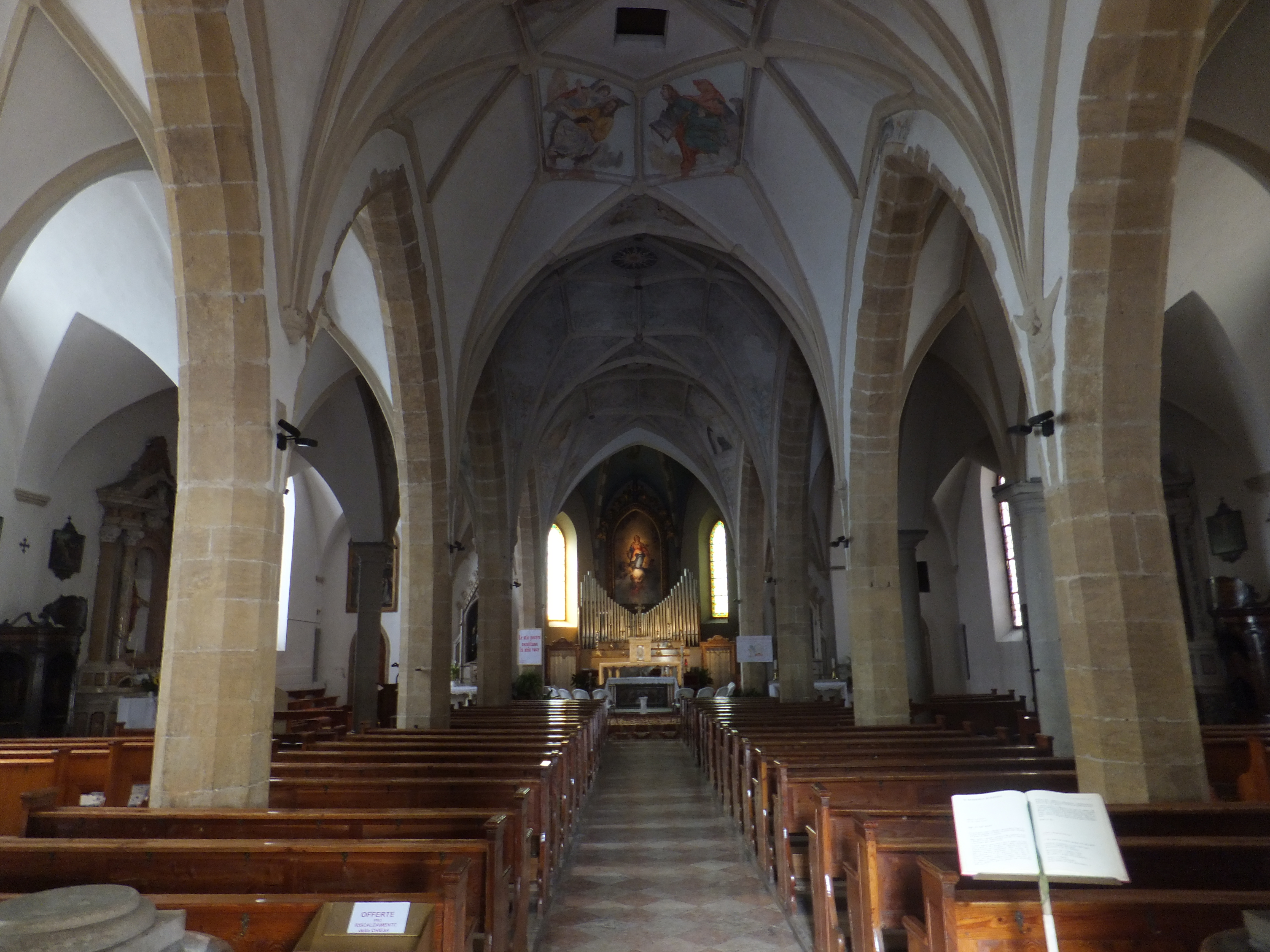 Cembra (Trentino, Italy) - Church of the Assumption of Mary - Interior